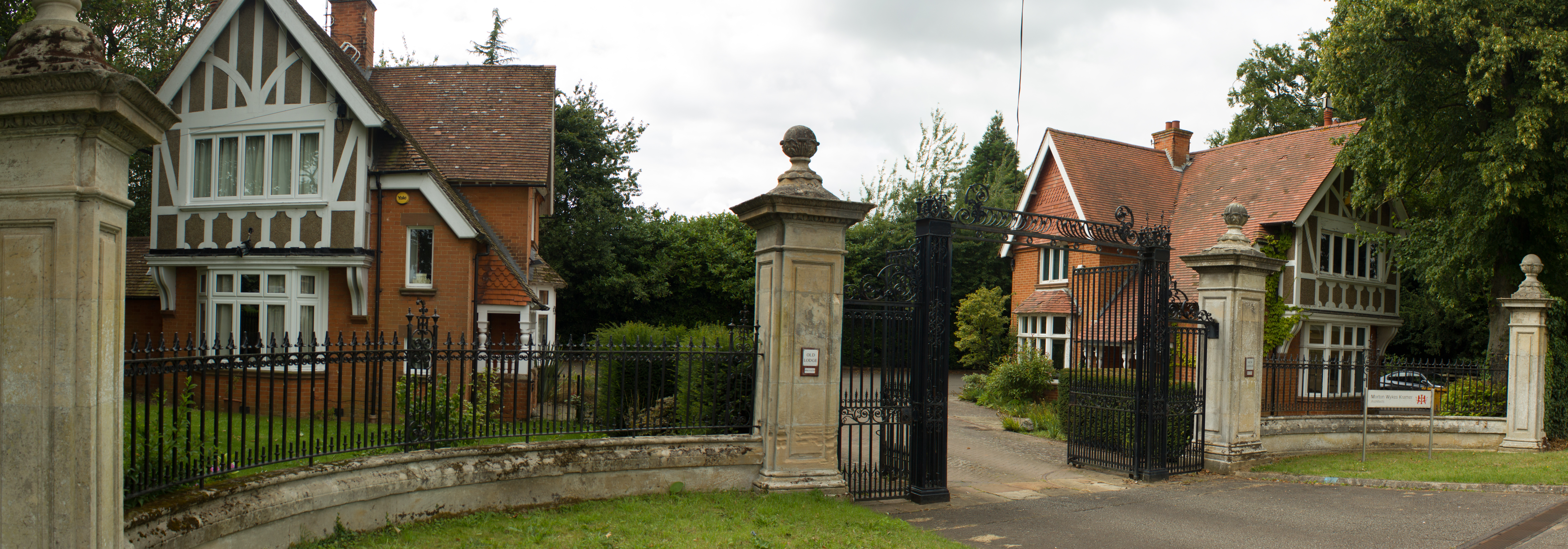 Sole remains of Collingtree Park Grange now demolished - photos taken from public highway (A45)